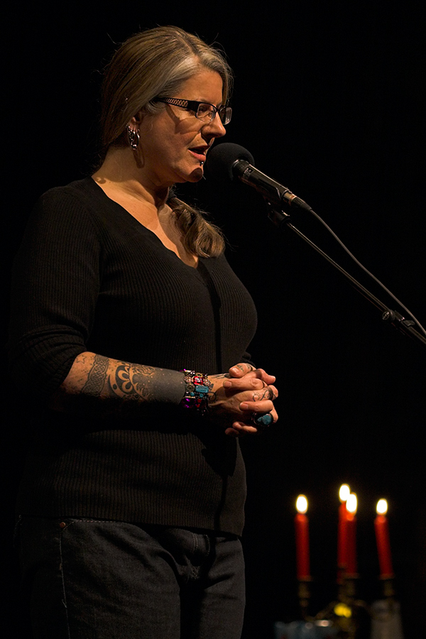 Photo of Joolz Denby in Berlin, Kesselhaus, 24.01.2009